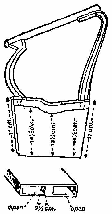 Drawing of an ancient Egyptian cithara.